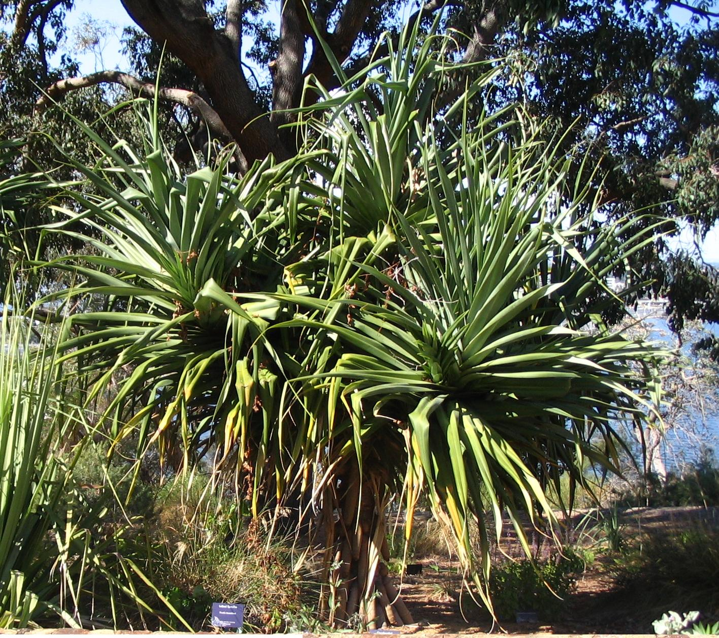 Gandjandjal (Pandanus aquaticus) in Kings Park, Perth, Australia; native to Kimberley, Western Australia.